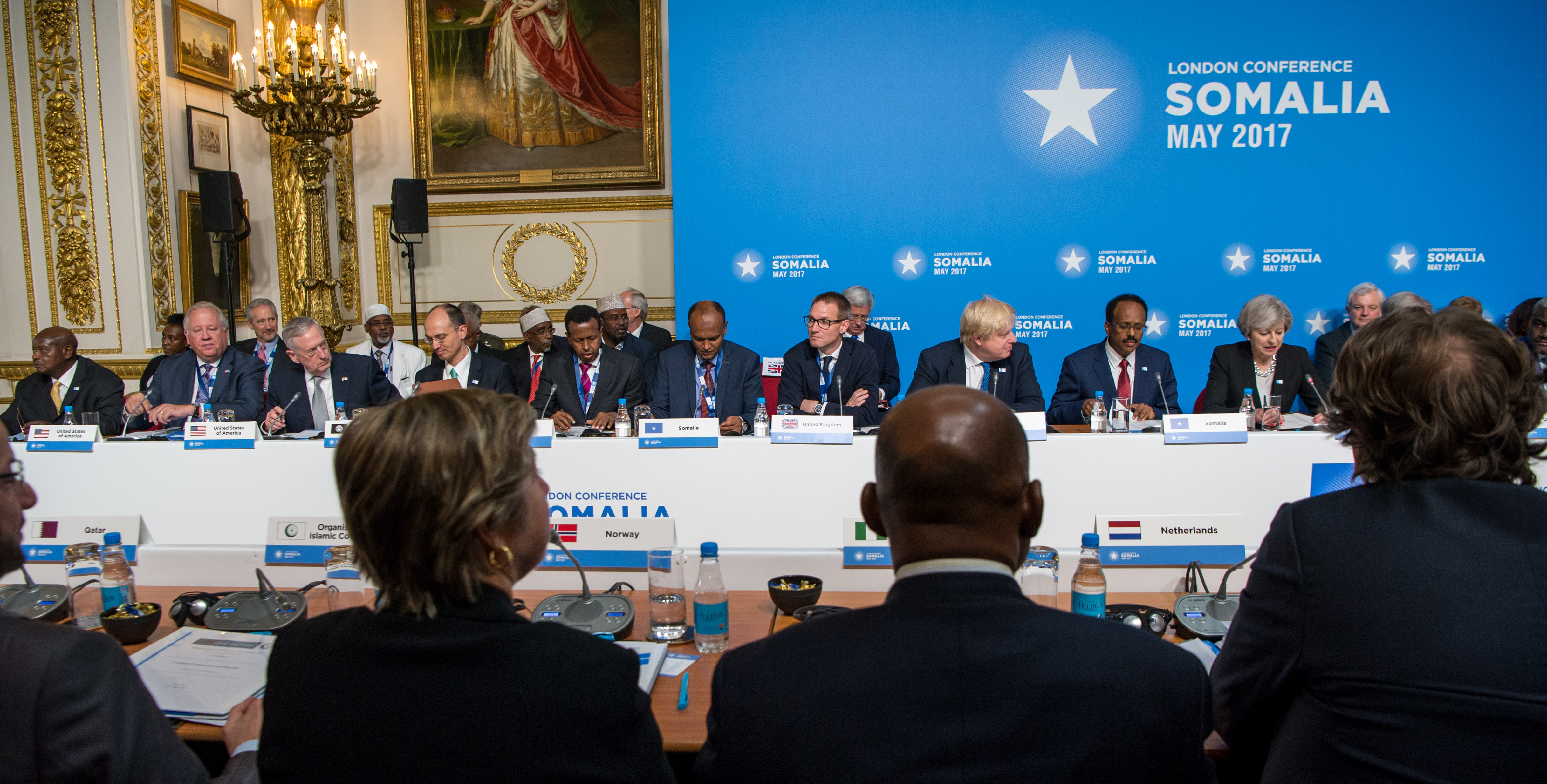 Secretary of Defense Jim Mattis attends the London Somalia Conference at the Lancaster House in London on May 11, 2017. (DOD photo by U.S. Air Force Staff Sgt. Jette Carr)